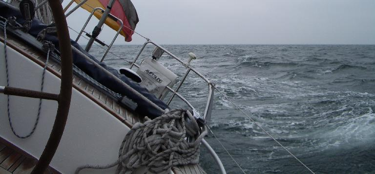 cruising sailor´s nice wind baltic sea 2005